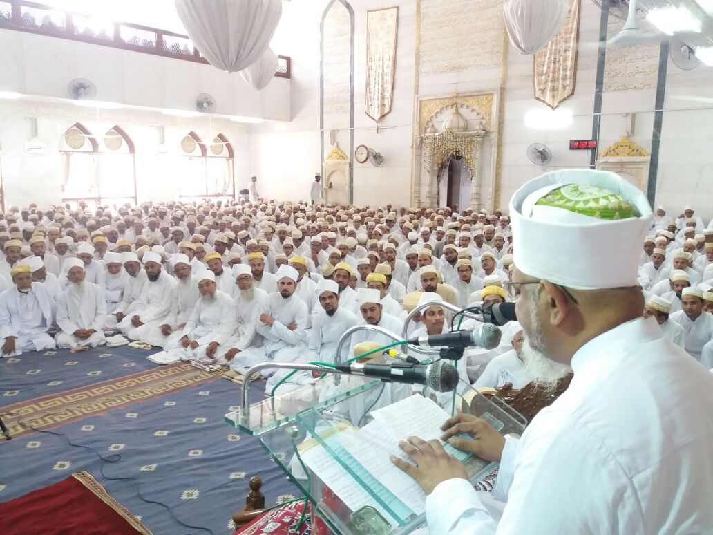 A grand majlis in the grand mosque